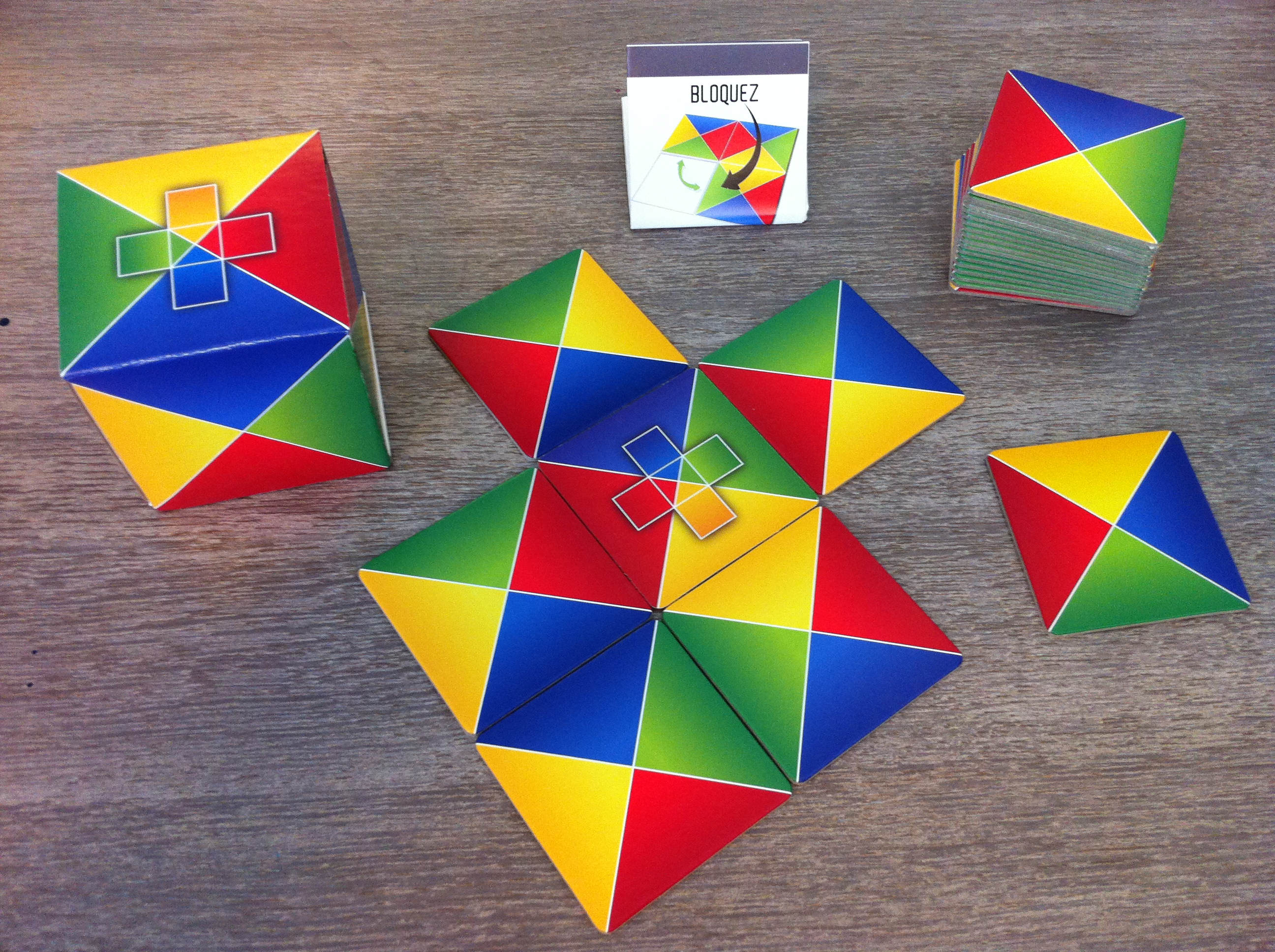 This is the pocket size version of the United Square game also known as The Cube² showing game rules (in French), the packaging and how it is played.